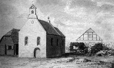 The old church of Ikšķile in the 18th century